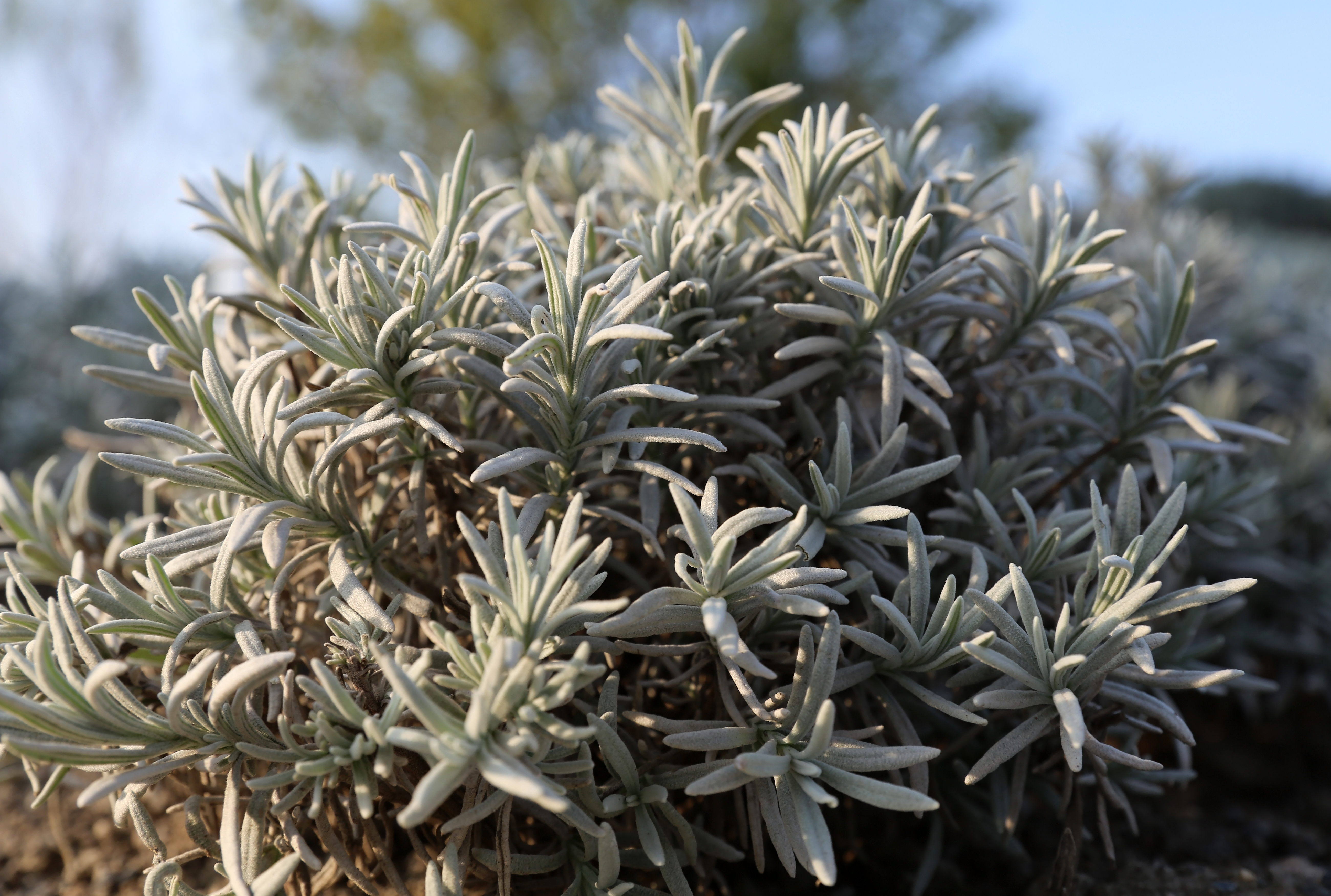 Lavandula lanata ("Silver Frost") at Blumengärten Hirschstetten in Vienna, Austria.